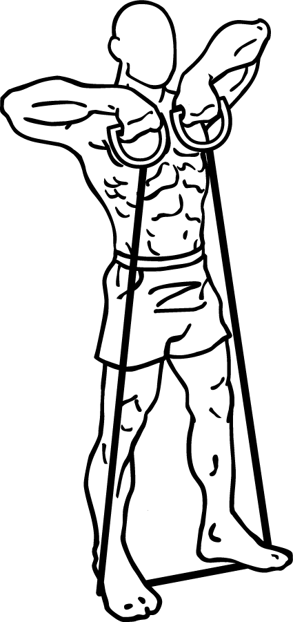 an exercise of shoulder